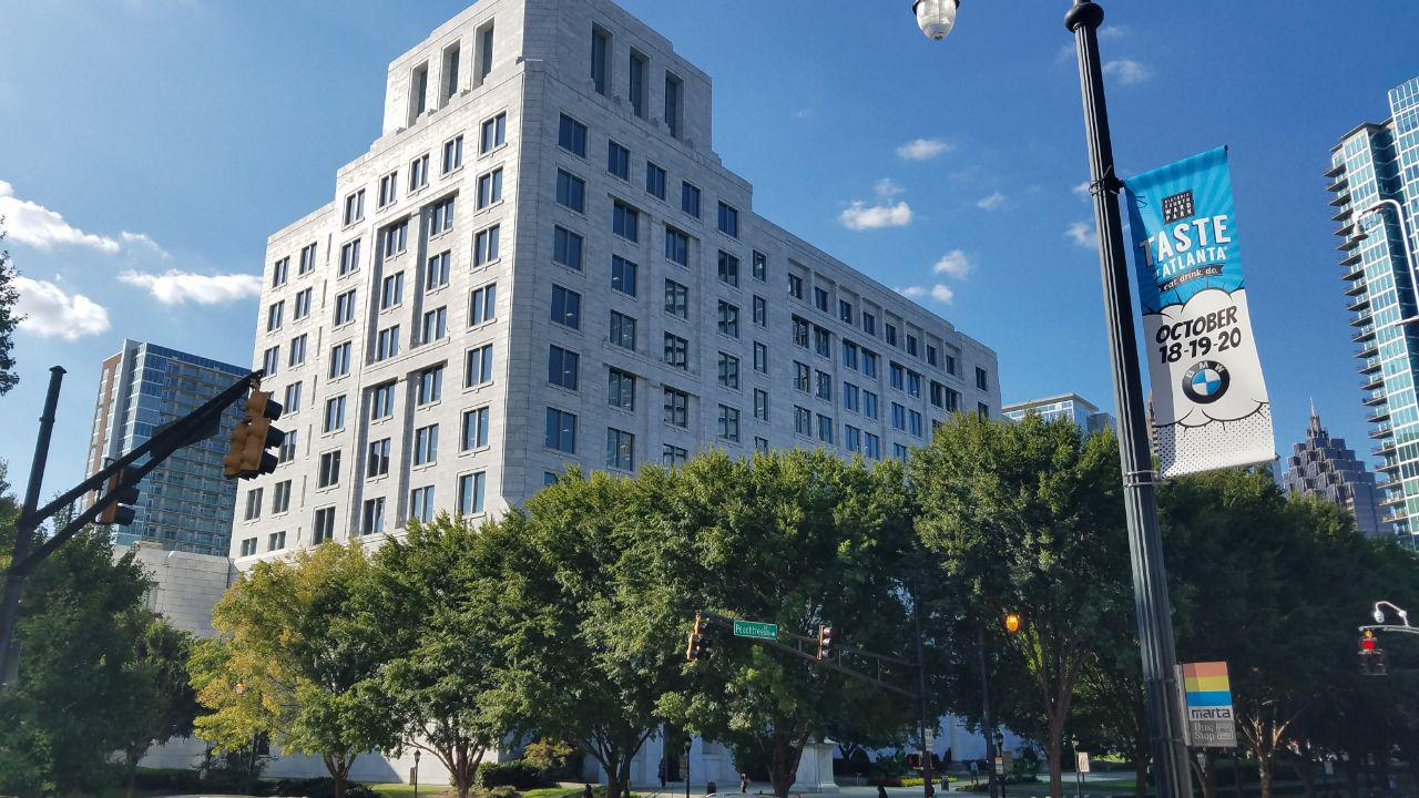 Headquarters for the Atlanta branch of the Federal Reserve.